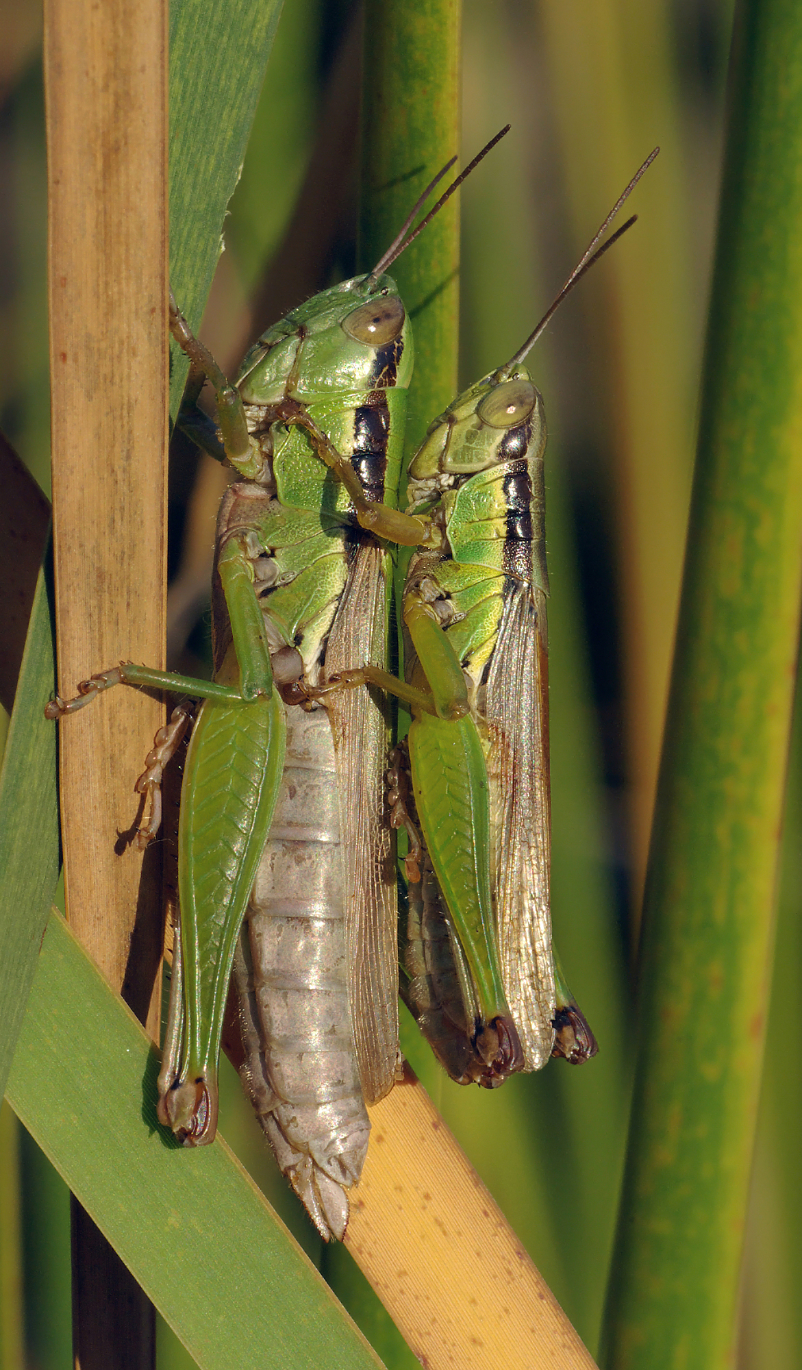 Locust. Female (left) and male (right). This picture was taken in Osaka (Japan) at sunset.